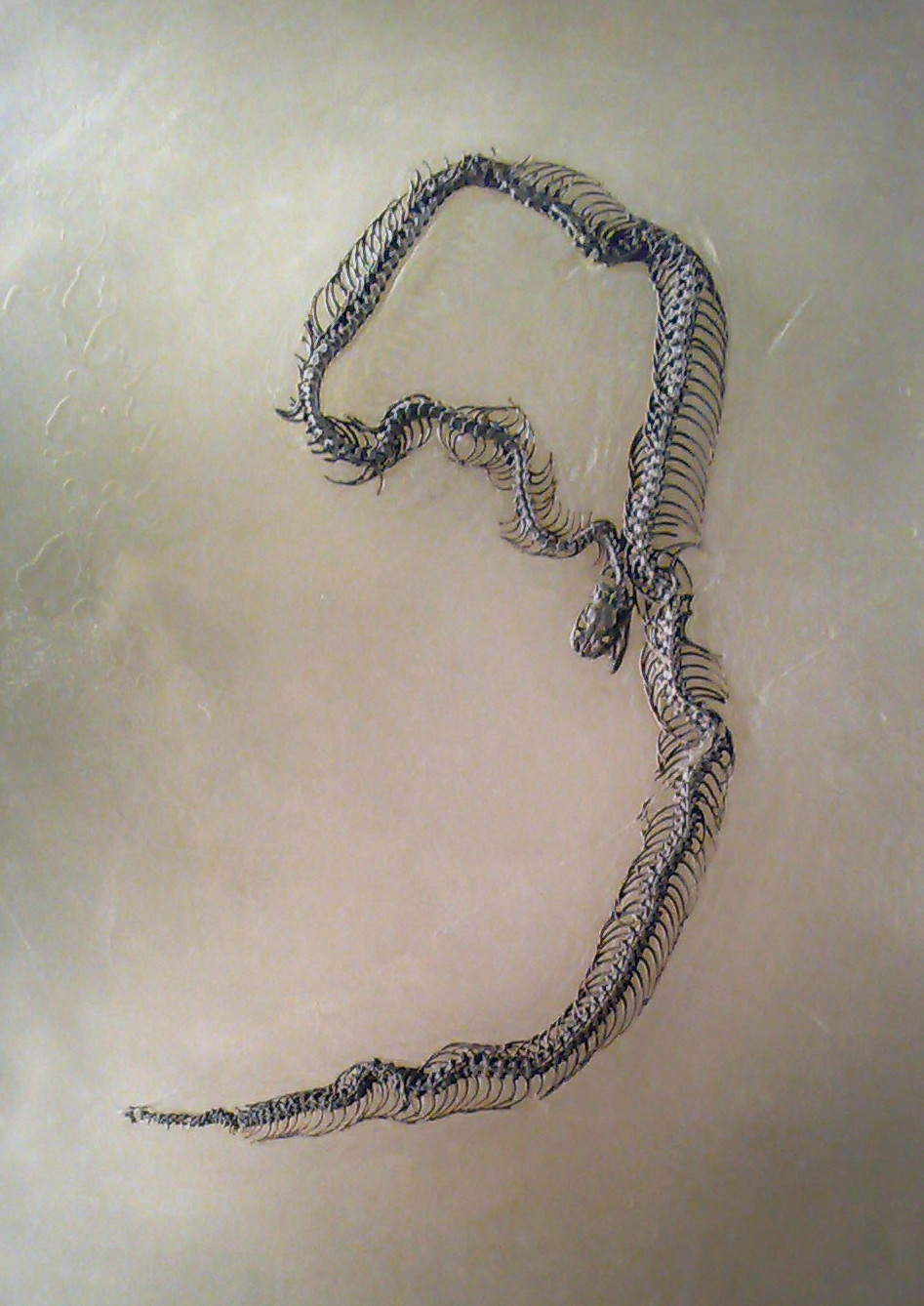 extinct pygmy boa Rieppelophis ermannorum from the Messel fossil site in Germany, on display at the Oslo Zoological Museum